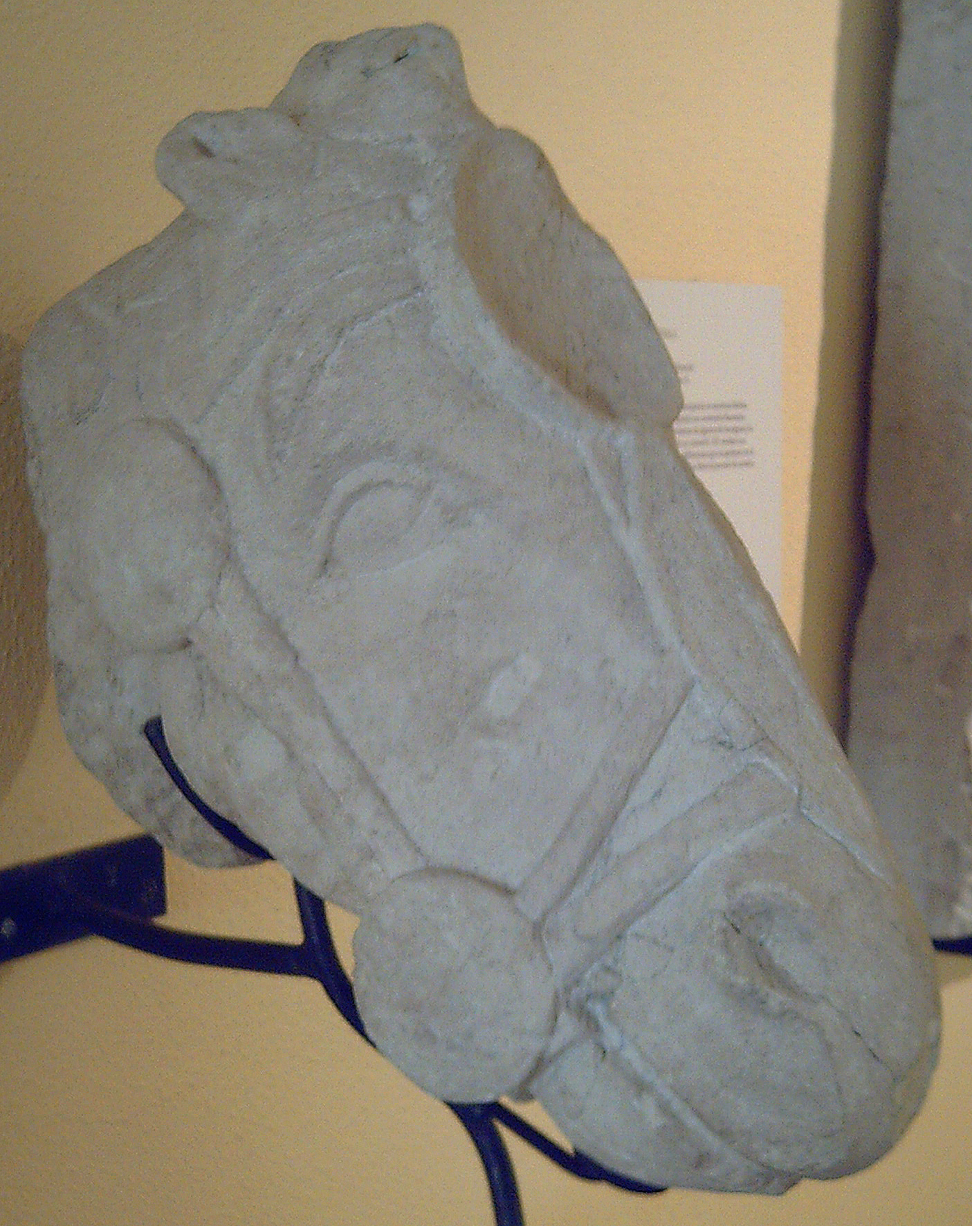 Iberian horse head.